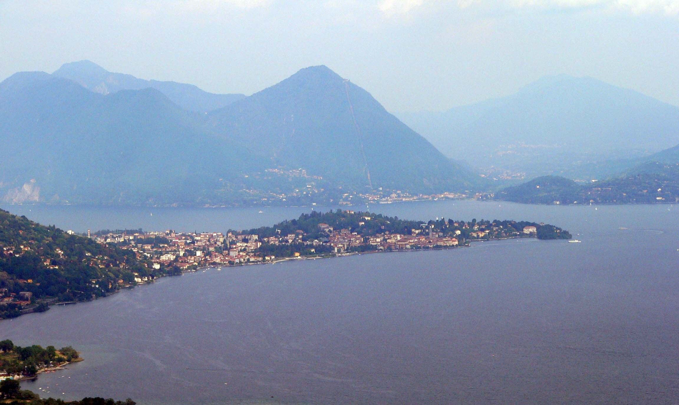 Verbania-Pallanza seen from Mont'Orfano. Lake Maggiore, Italy.